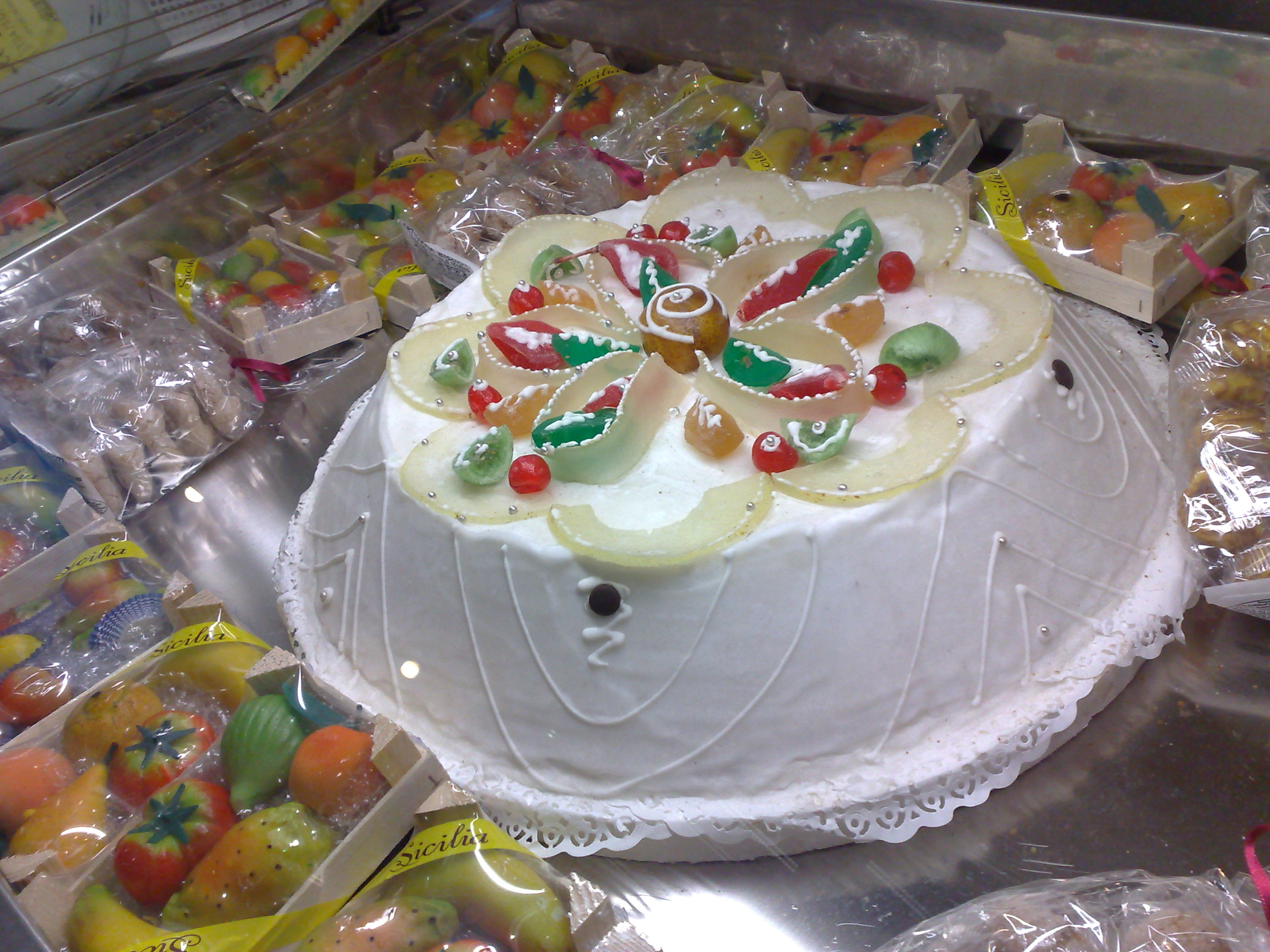 Sicilian cassata